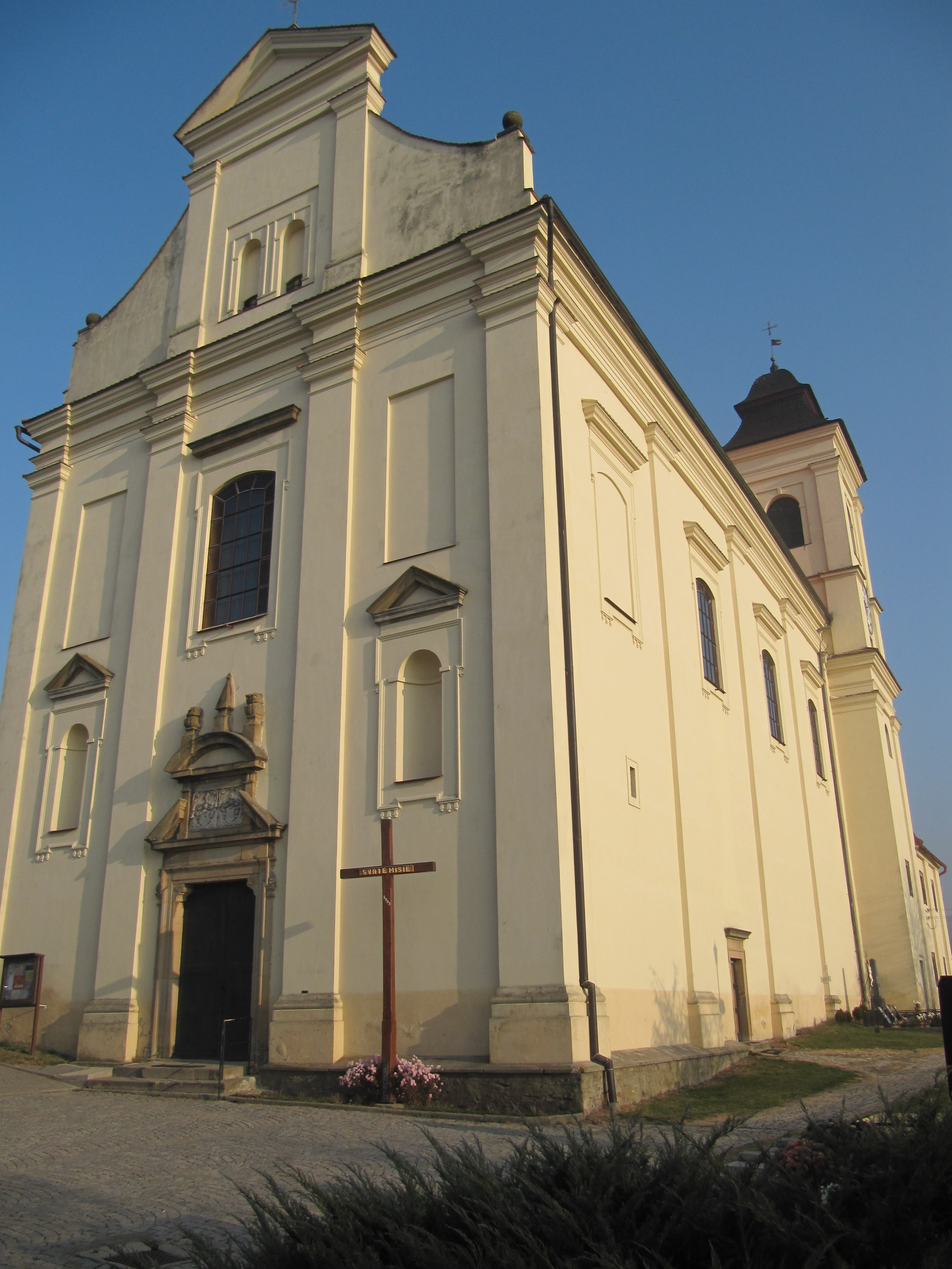 Bojkovice in Uherské Hradiště District, Czech Republic. Early Baroque church of St. Lawrence from the years 1651-1656.